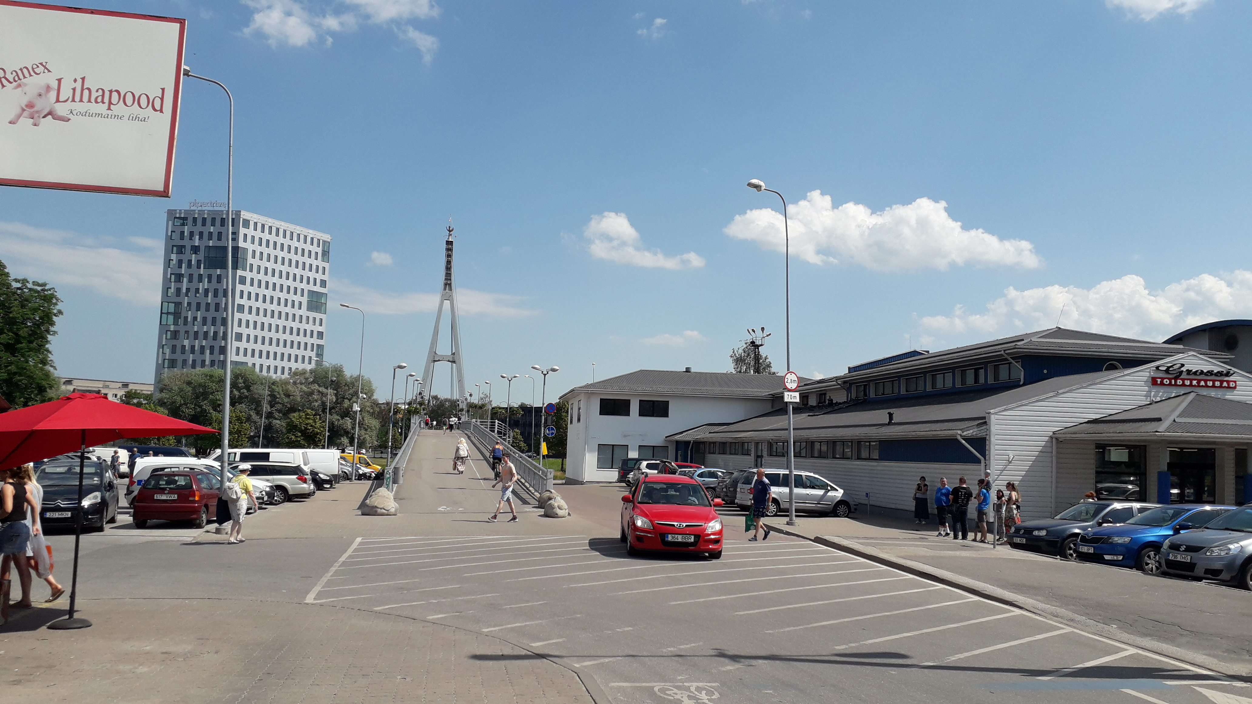 View of the pedestrian bridge from the open market, June 2020